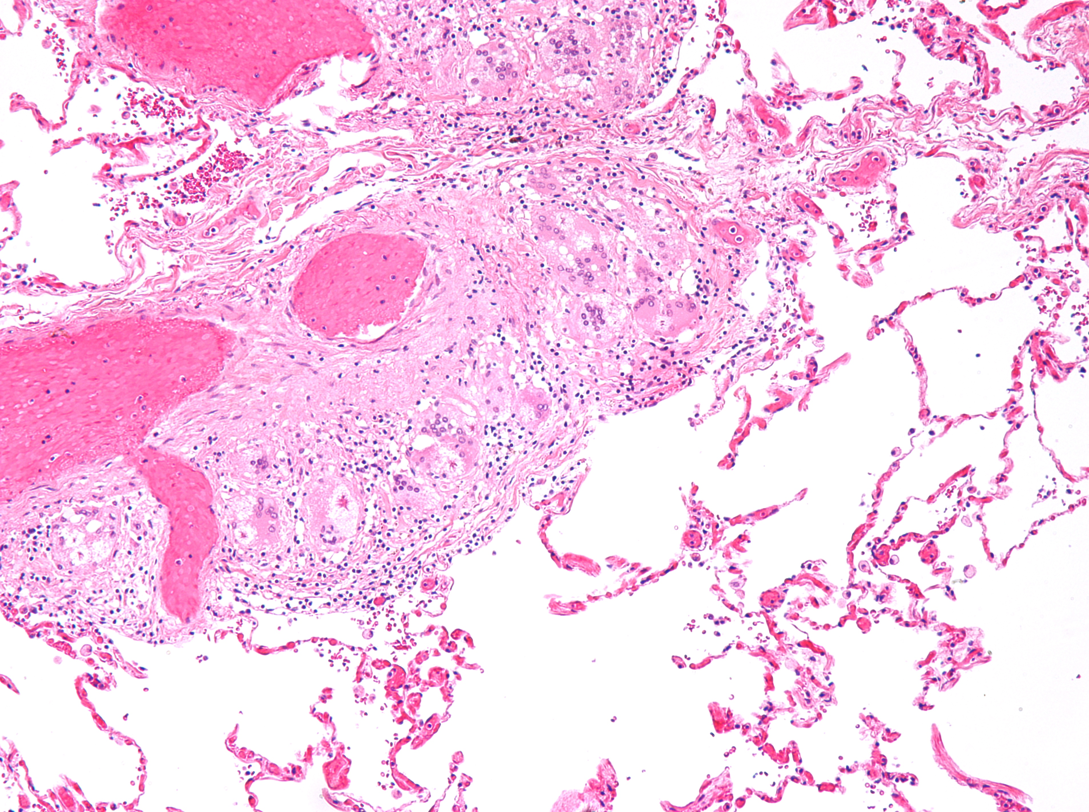 Intermediate magnification micrograph of an asteroid bodies as seen in pulmonary sarcoidosis. H&E stain. See also Image:Asteroid body very high mag.jpg